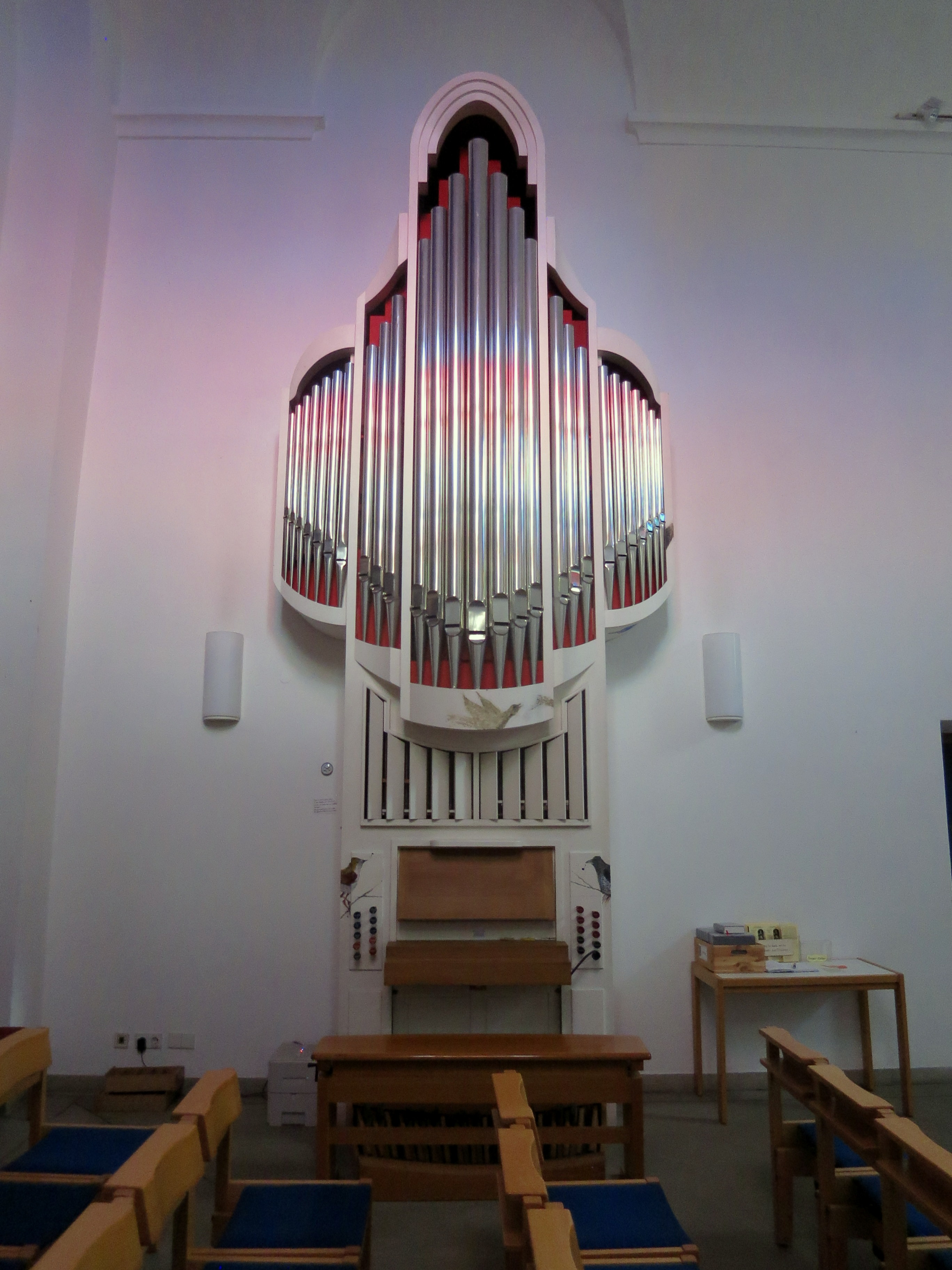 Village for children - pictures of the site Marienpflege Ellwangen